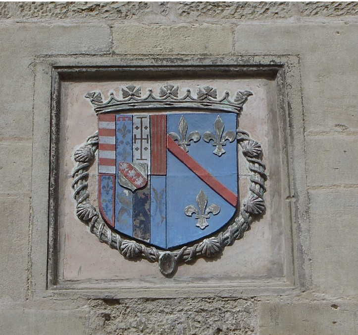 Coat of arms of Joinville, France.